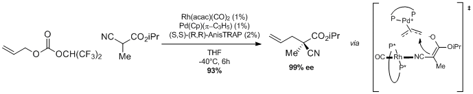 Asymmetric allylation of activated nitrles with Rh/Pd-dual catalysis